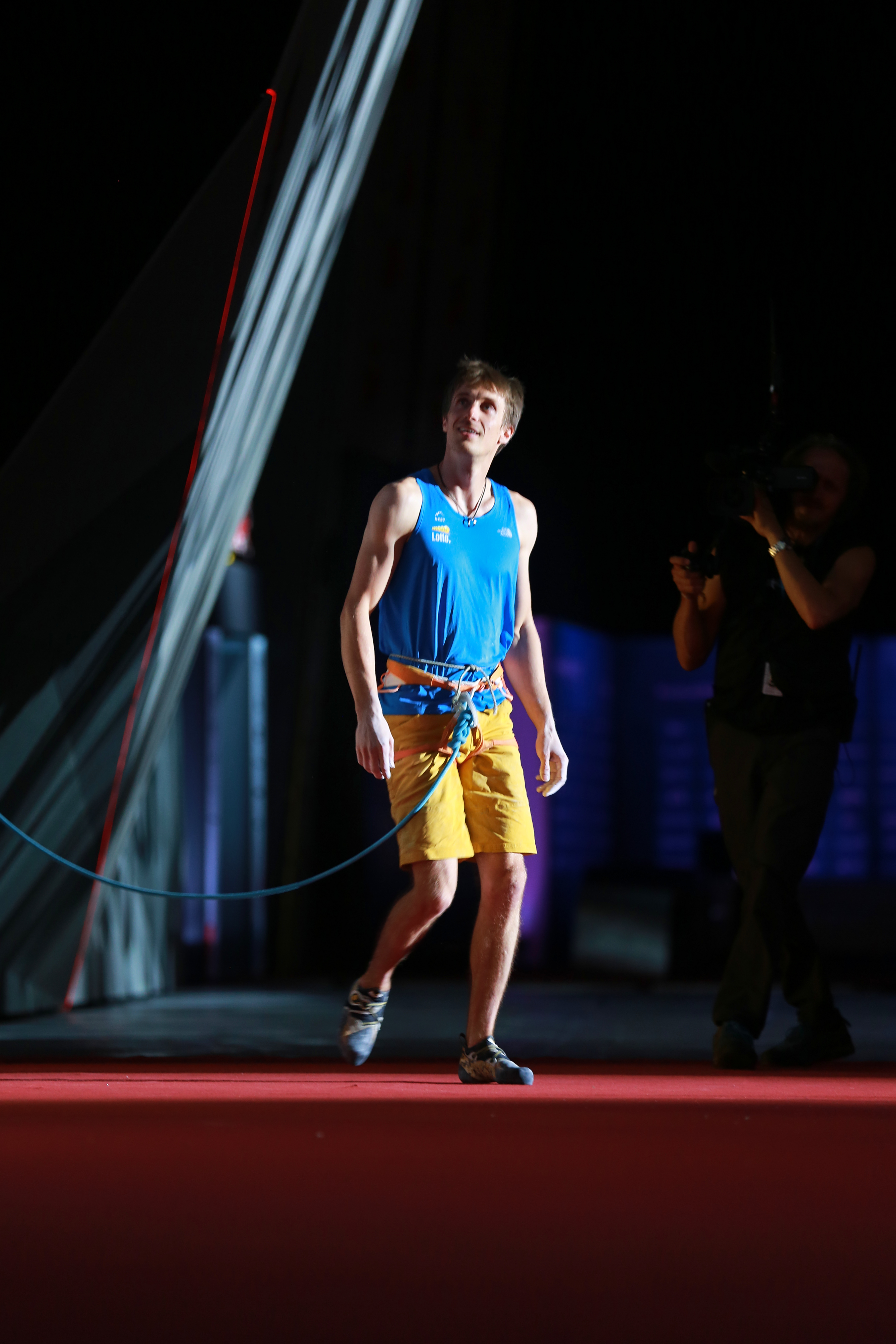 Climbing World Championships 2018 Lead Semi Verhoeven